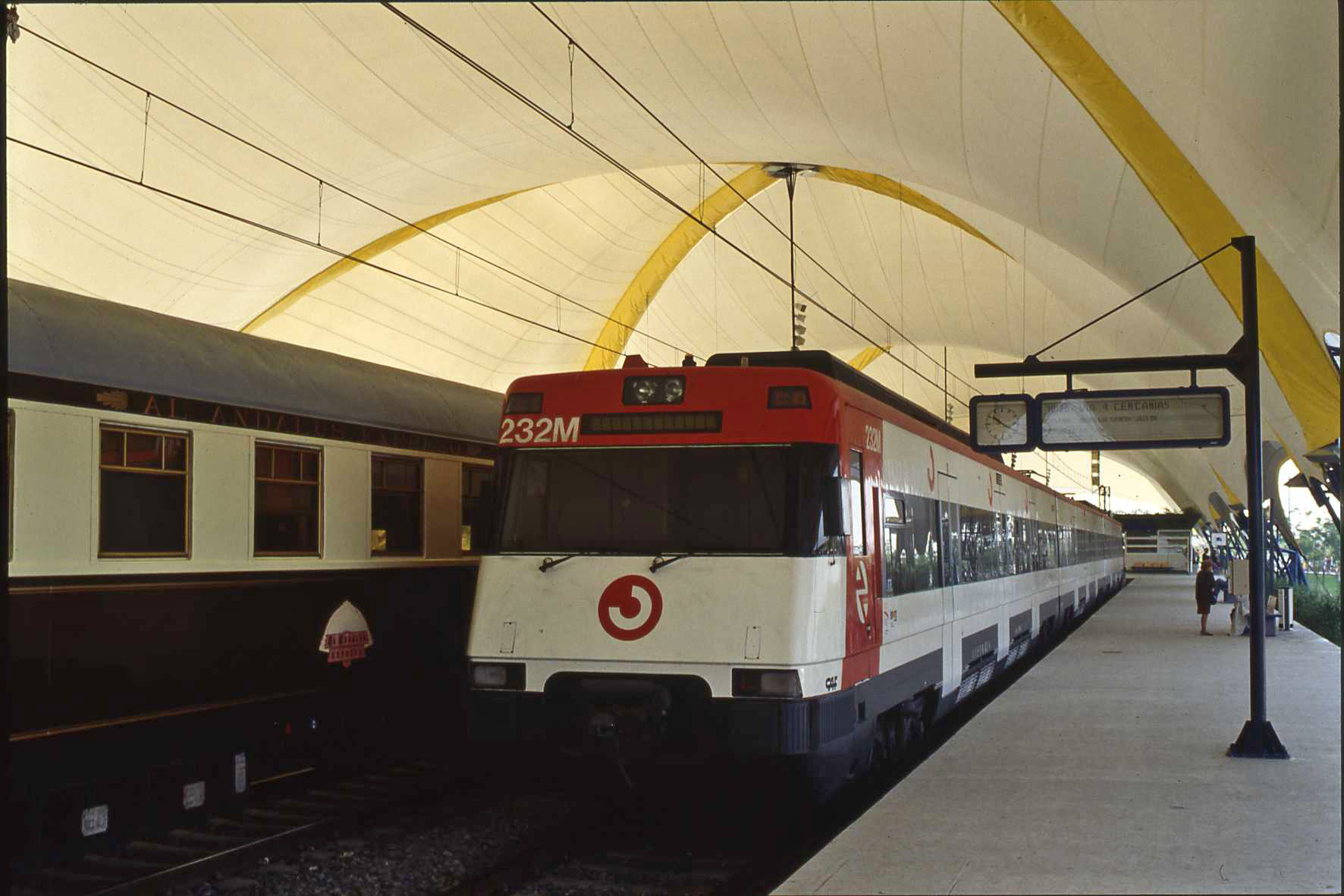 Temporary station "Sevilla expo" for the 1992 exposition. In the background there are Al Andalus Express coaches and in the foreground a local cercanias train.